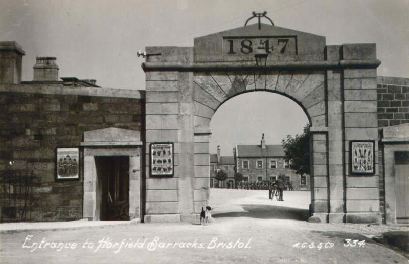 Postcard of Horfield Barracks